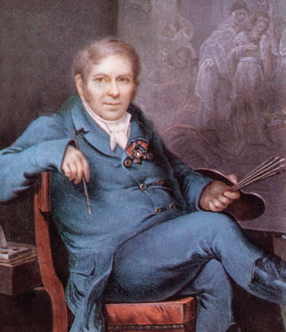 Portrait of the painter Grigory Ugryumov (1764-1823)